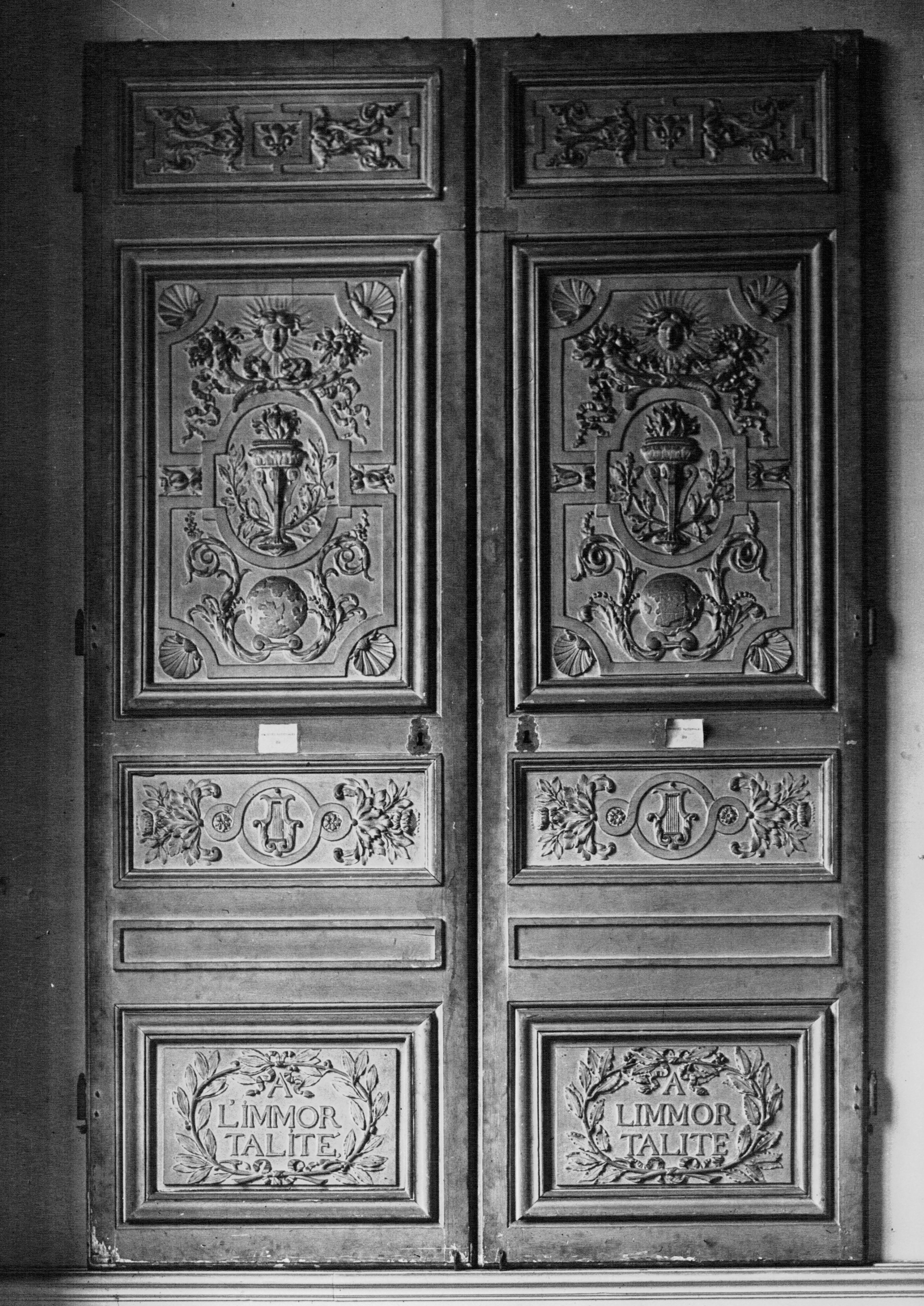 Old door of the Académie française (before 1780) with the inscription "À l'immortalité" (To Immortality).